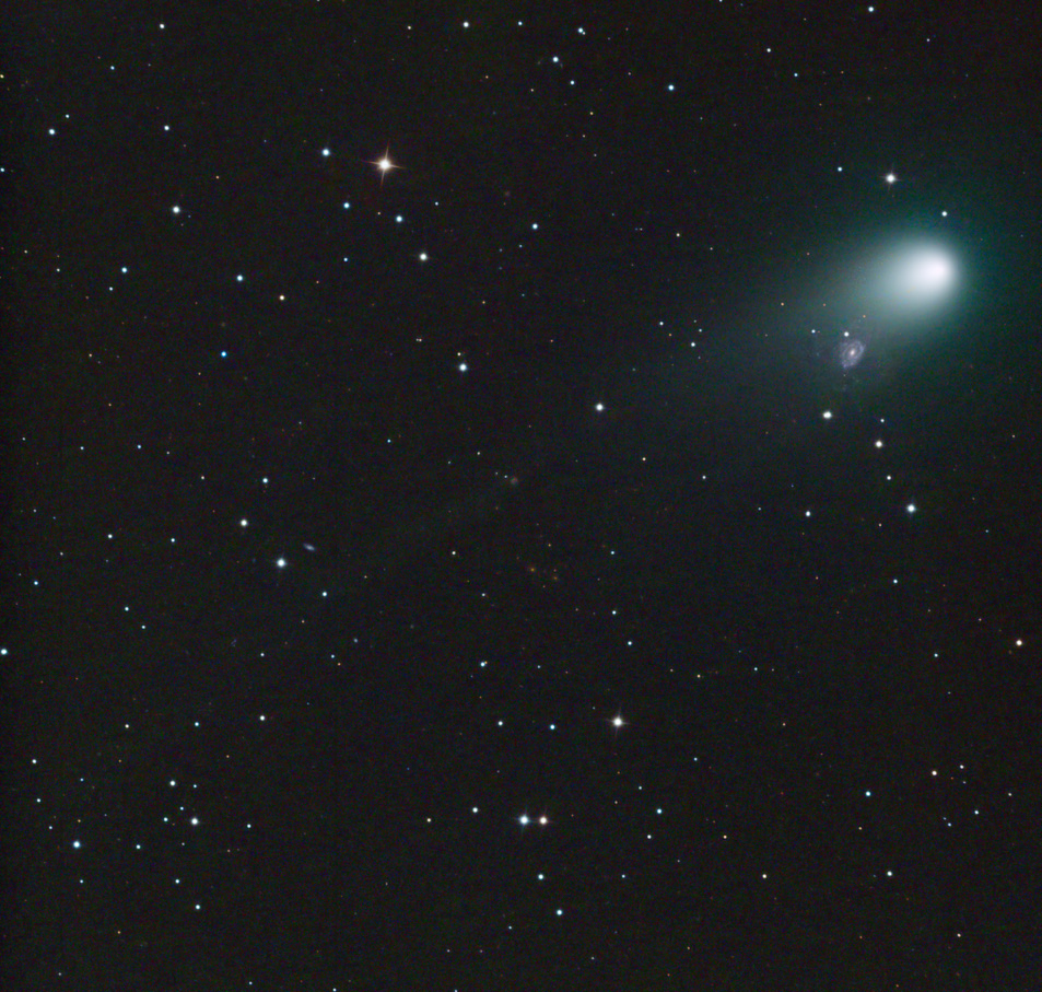 Comet 168P Hergenrother, at 5th October 2012. Picture Details: Optics 32-inch Schulman Telescope (RC Optical Systems), Acquired remotely Camera SBIG STX 16803 CCD Camera Filters AstroDon Gen II Dates October 5th 2012 Location Mount Lemmon SkyCenter Exposure RGB = 9:9:9 minutes Acquisition ACP Observatory Control Software (DC-3 Dreams),TheSky (Software Bisque), Maxim DL/CCD (Cyanogen), FlatMan XL (Alnitak) Processing CCDStack (CCDWare), Photoshop CS5 (Adobe), PixInsight Credit Line and Copyright Adam Block/Mount Lemmon SkyCenter/University of Arizona